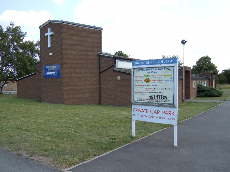 Sinfin Moor Church, Arleston Lane, Sinfin, Derby, seen from the southwest